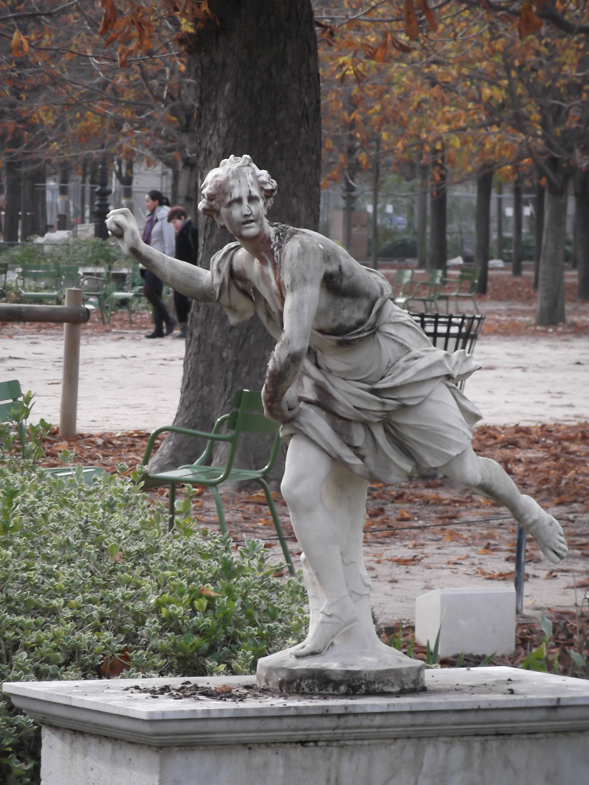 Hippomène by Guillaume Coustou, Jardin des Tuileries, Paris.